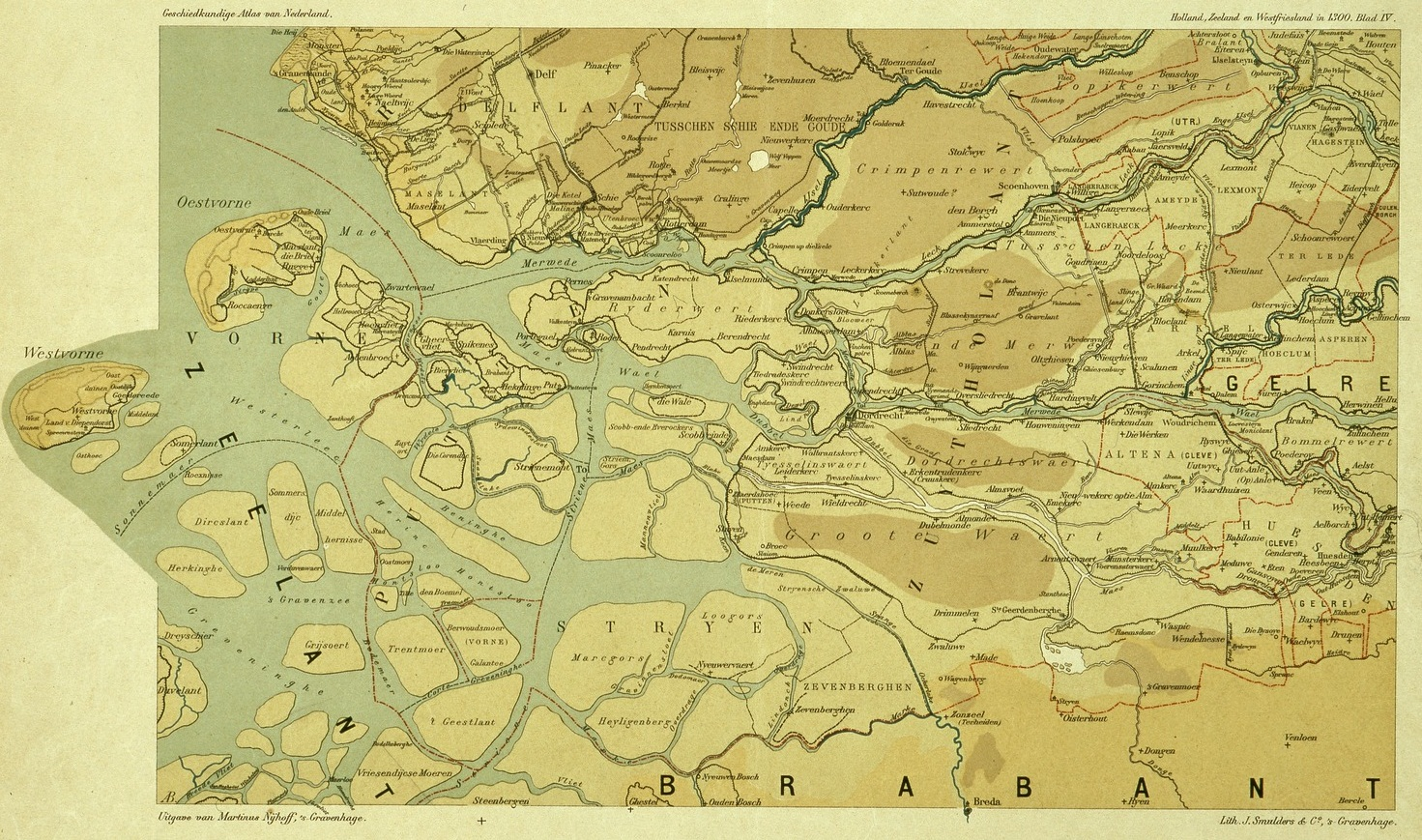 The southern part of the province of Zuid-Holland in the year 1300.